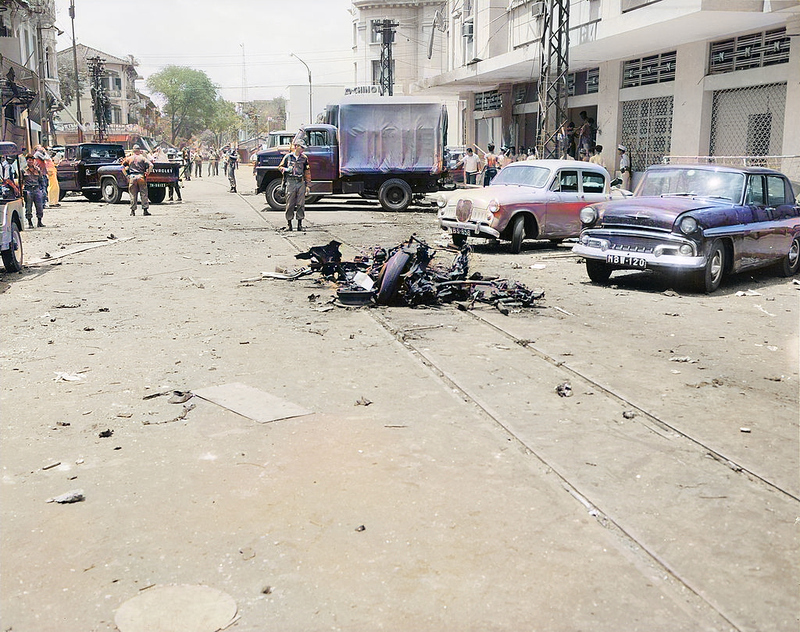 Scene of Viet Cong terrorist bombing in Saigon, Republic of Vietnam, 1965 (Colorized)